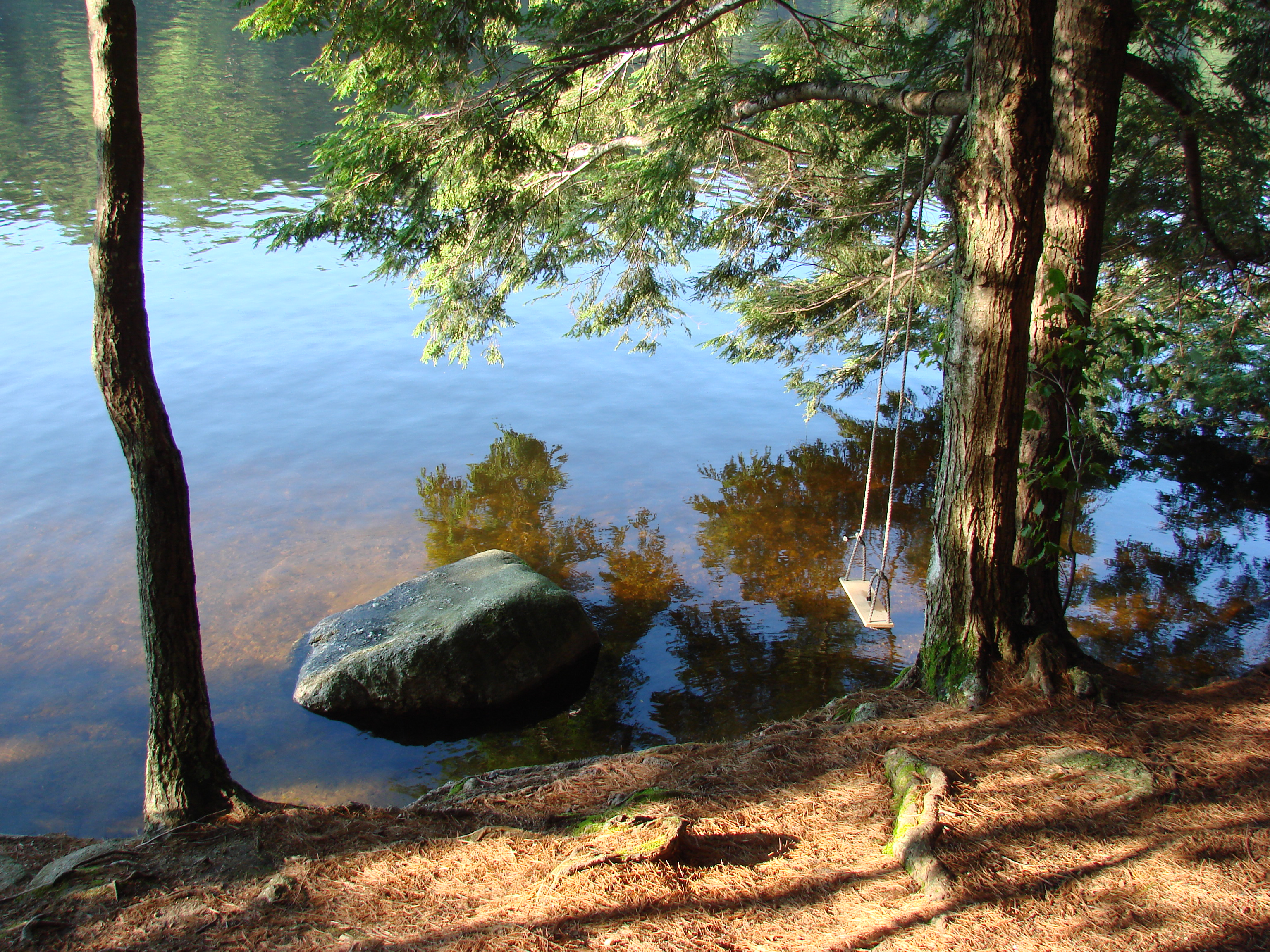 The edge of the lake on site #7 at Pawtuckaway State Park in New Hampshire.